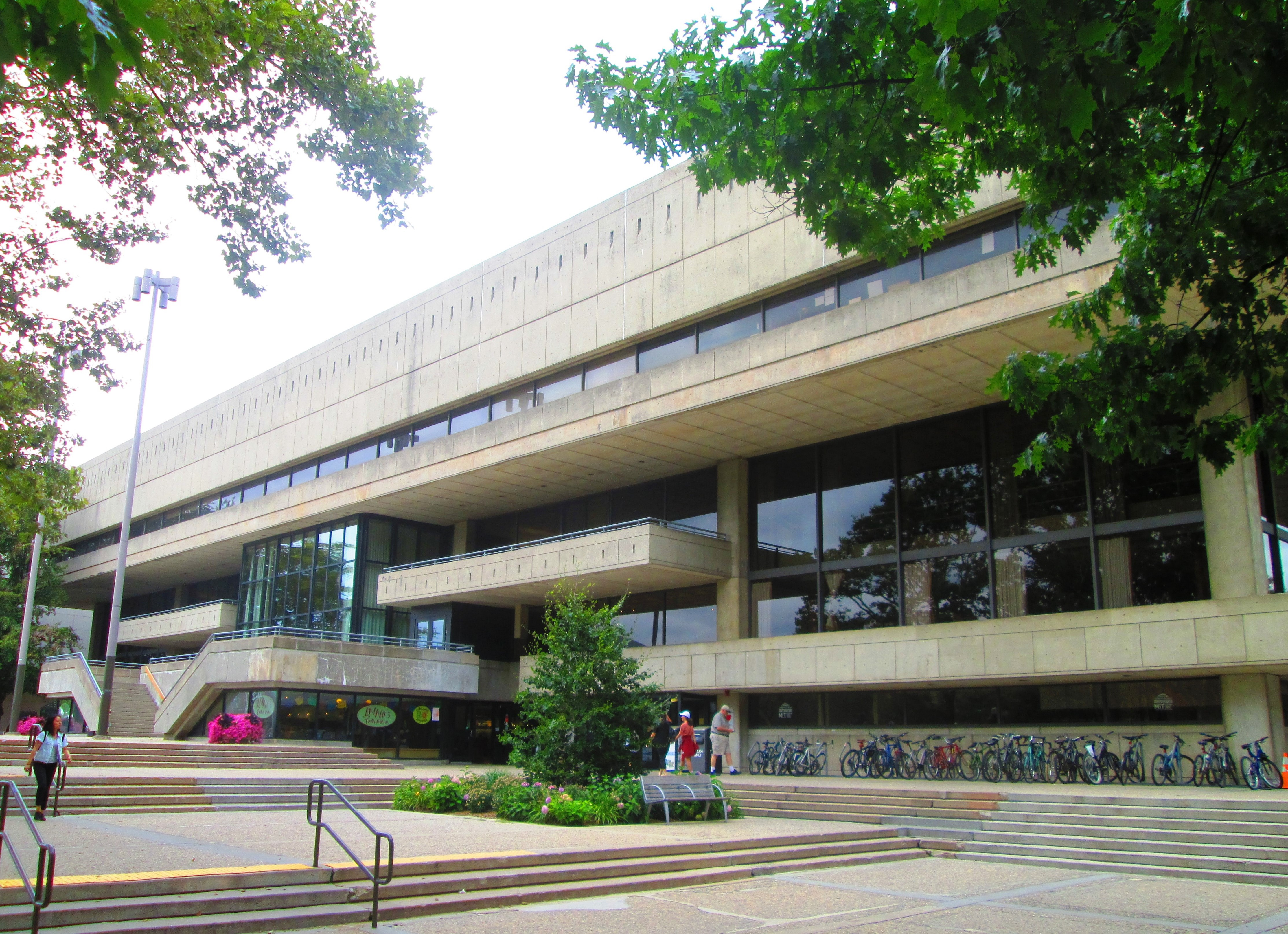 The Julius Adams Stratton Student Center, also known as MIT Building W20, located at 84 Massachusetts Avenue in Cambridge, Massachusetts, was built from 1964 to 1968 and was designed by Eduardo Catalano in the High Brutalist style. It was originally to have been designed by Eero Saarinen, who had designed the nearby MIT Chapel and Kresge Auditorium, but Saarinen's design was not approved because of both objections to the design and its high cost. (Sources: AIA Guide to Boston and MIT: An Architectural Tour